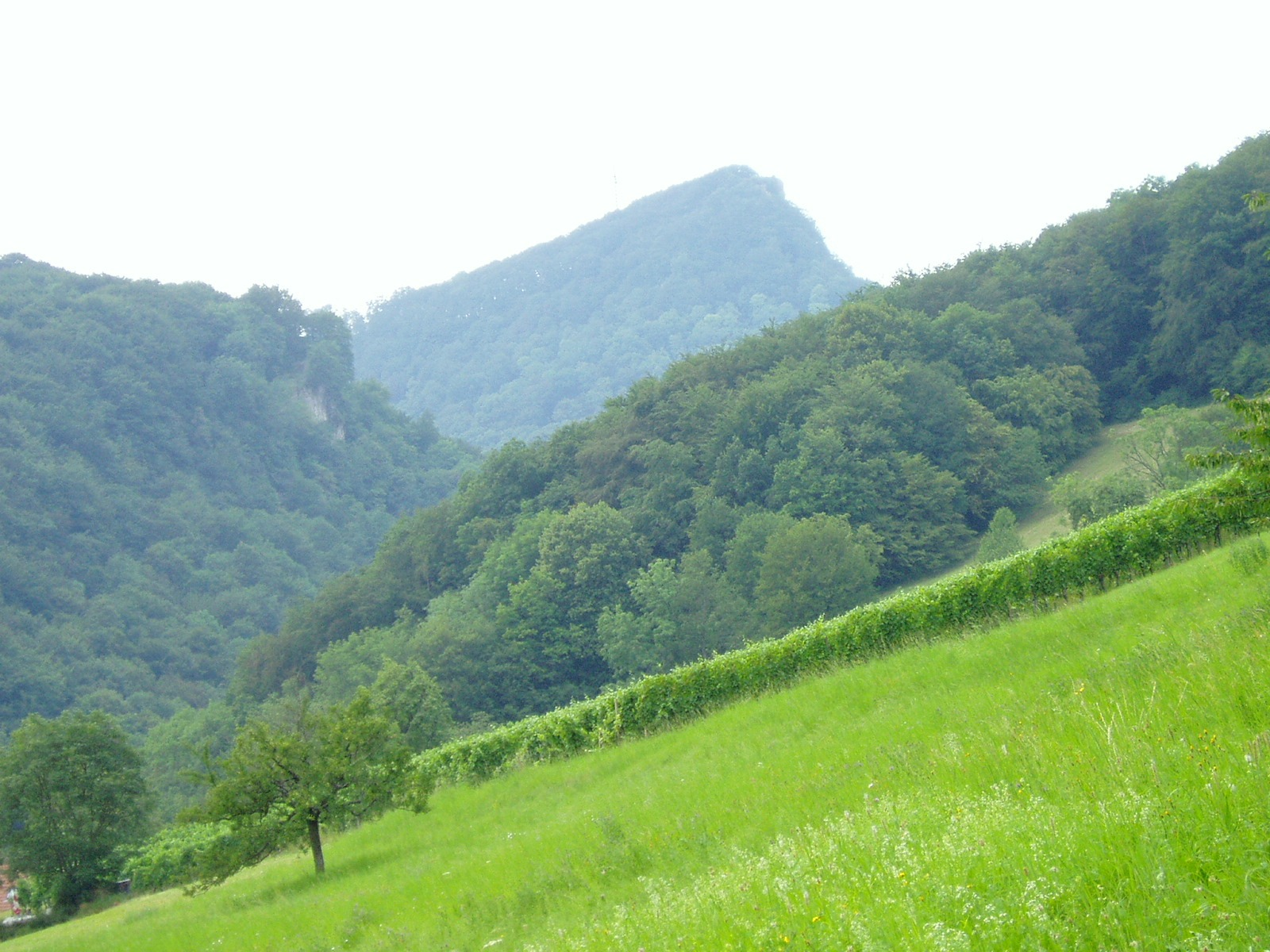 Wasserfluh, mountain in Switzerland, pictured from N 47°25'20 W8°02'40